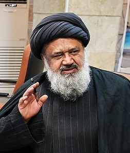 Seyyed Mohammad Amin Khorasani enrolls for the Assembly of Experts elections